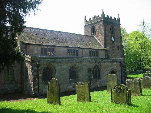 St Peter's Church, Caverswall. Built approx. 350 years ago.